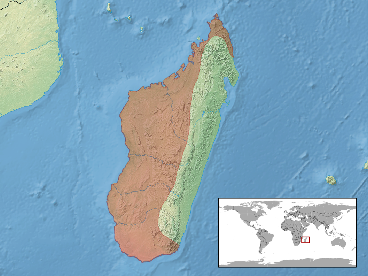 geographic distribution of Trachylepis elegans